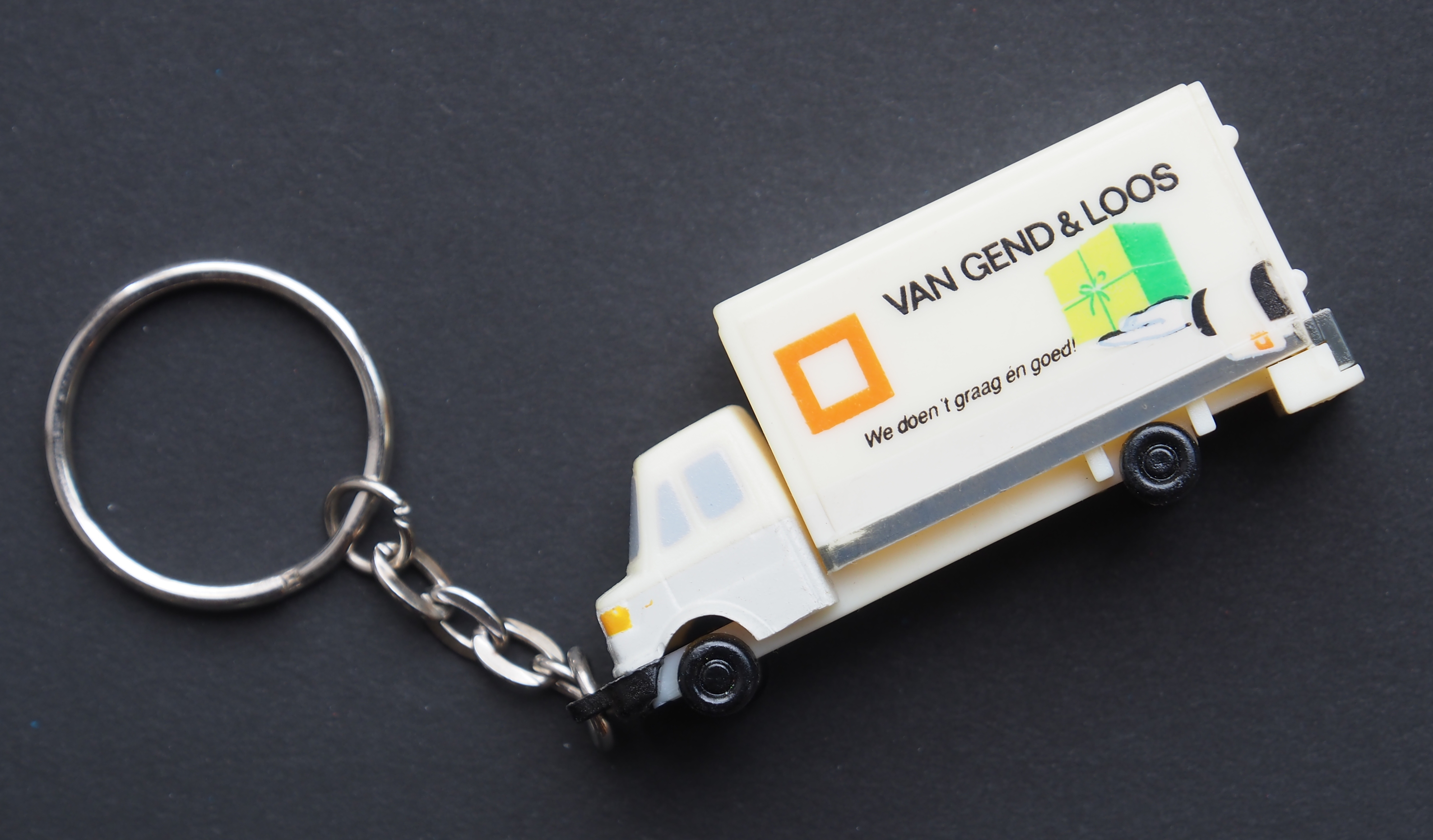 Photo of an advertising keyfob from the 60's.